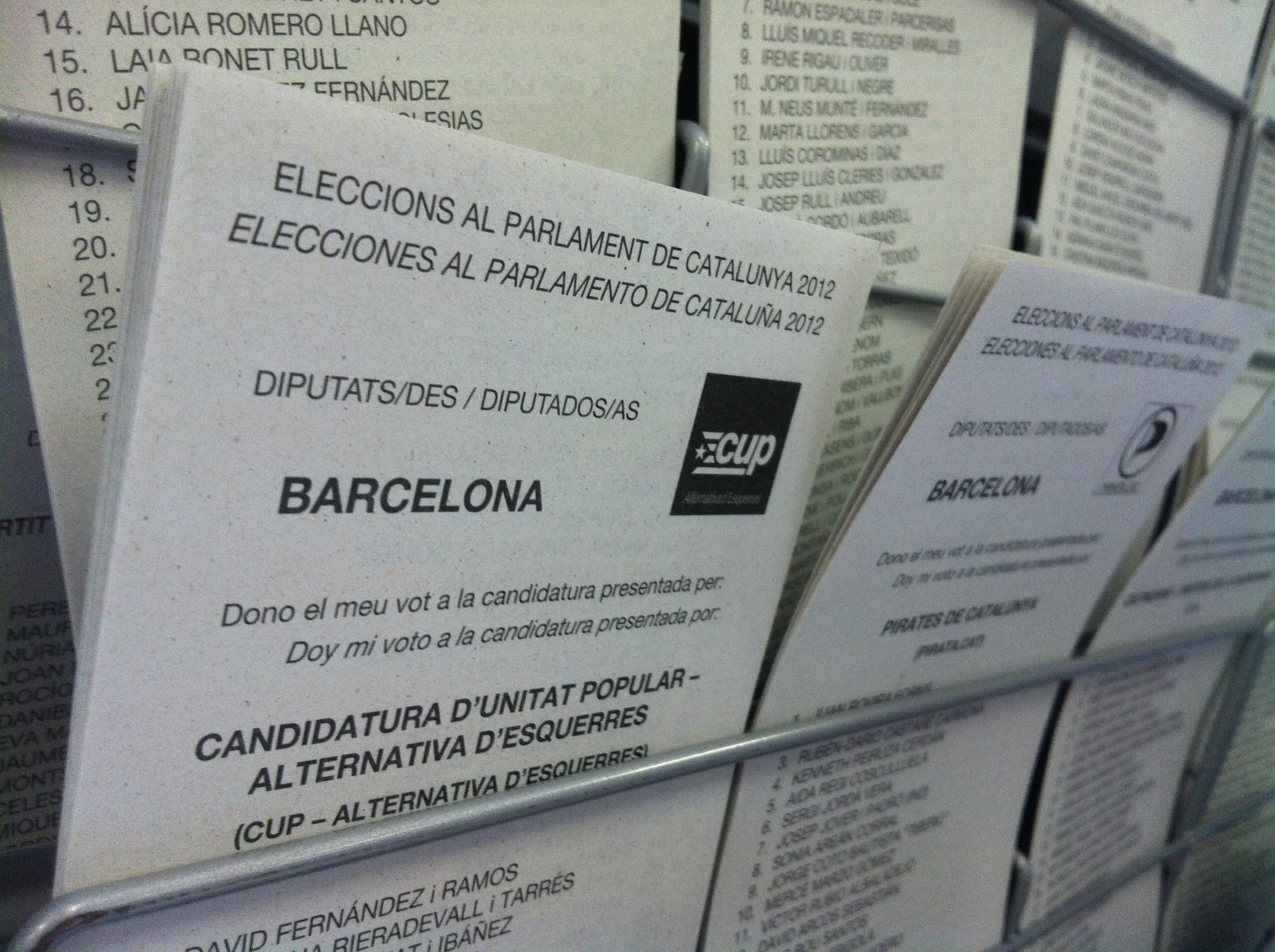 Catalonian parliamentary election in Sabadell, 2012